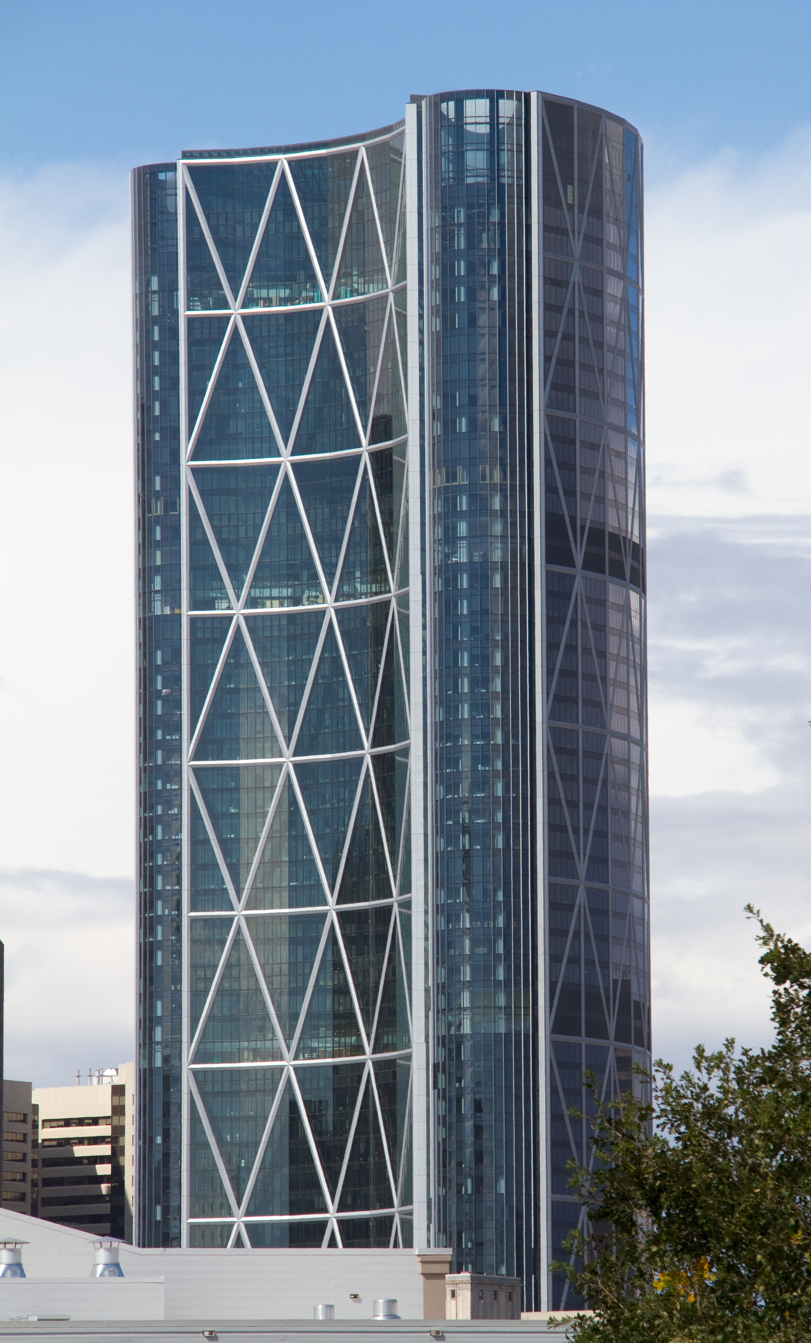 I'm not a fan of large office blocks, but at least they have made an effort to be a bit different with this skyscraper